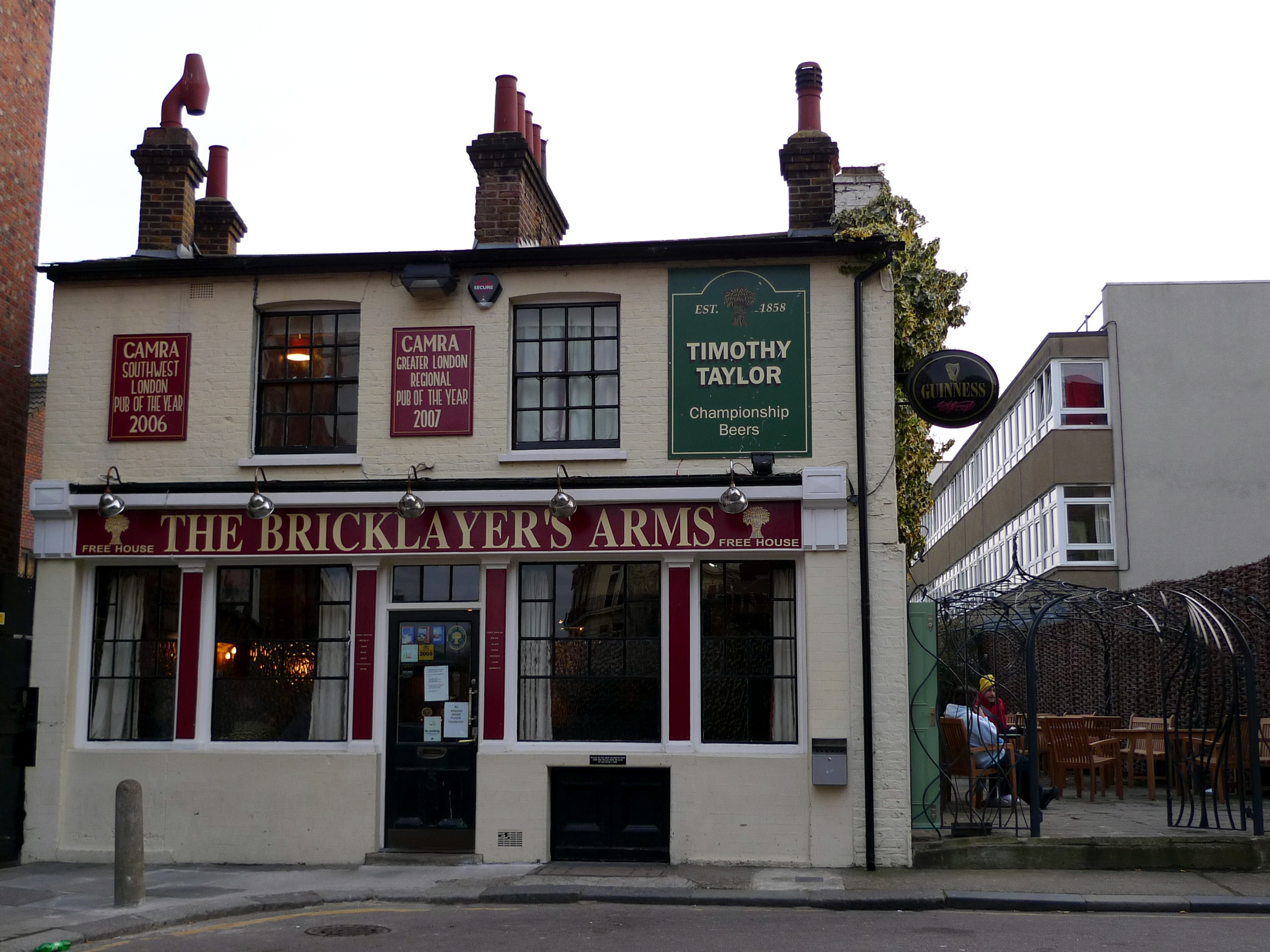 A proper free house in Putney, with lots of lovely Timothy Taylor beers and a friendly atmosphere. Address: 32 Waterman Street. Owner: (website). Links: Randomness Guide to London Fancyapint Beer in the Evening Qype